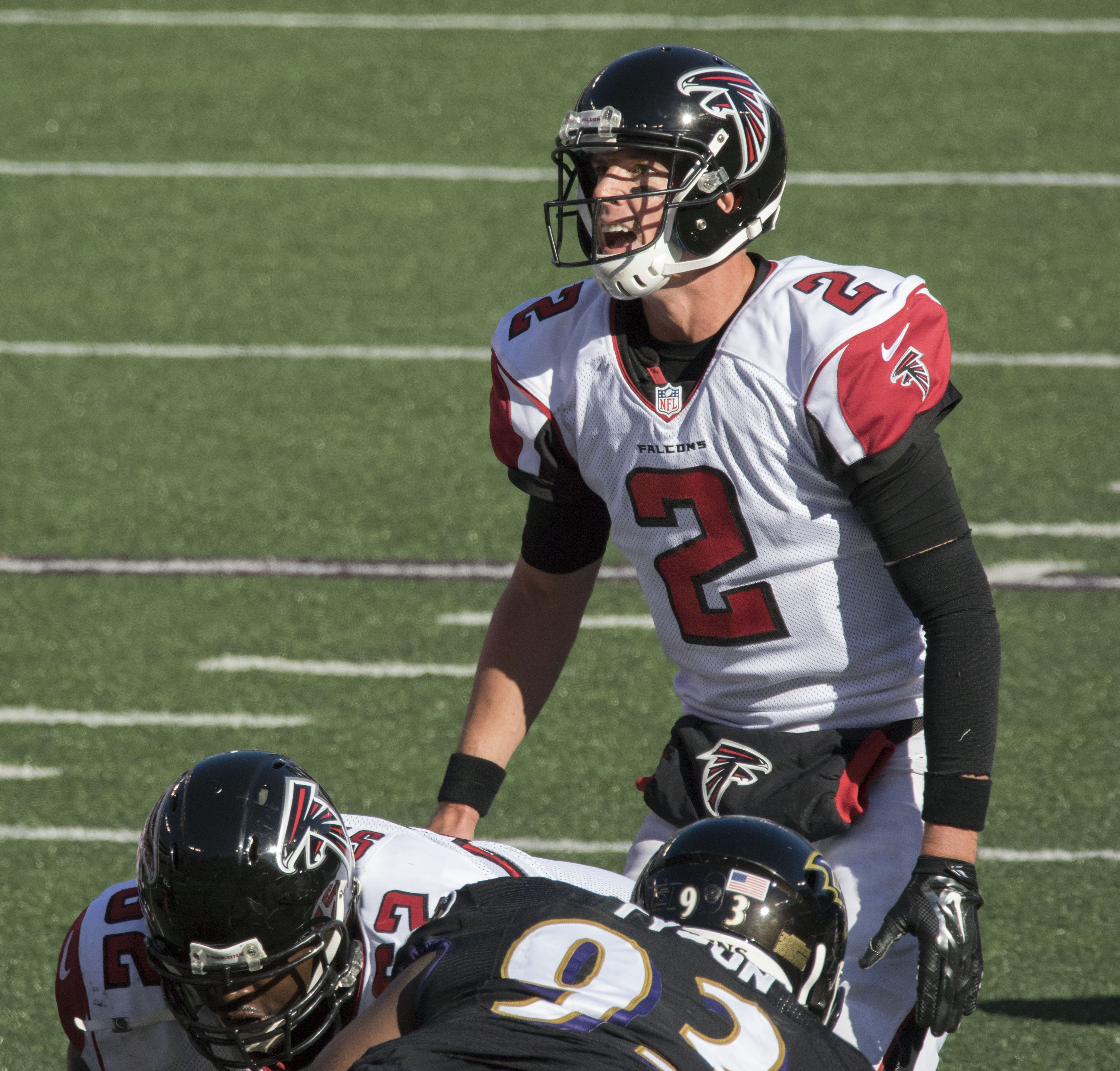 Falcons at Ravens 10/19/14